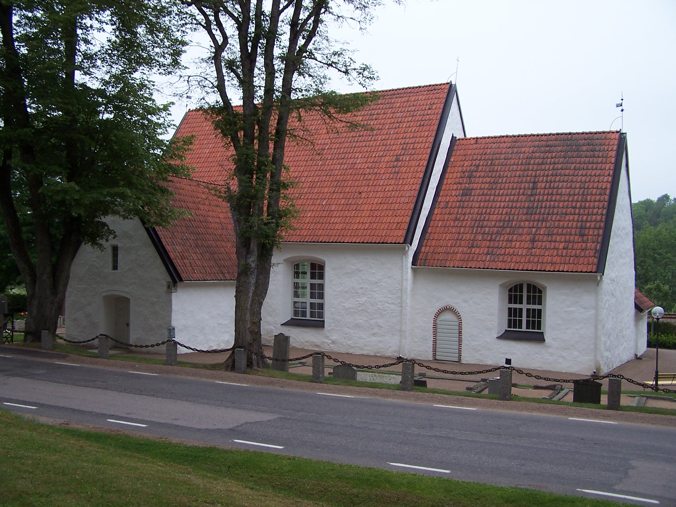 Edestads church, Ronneby parish.